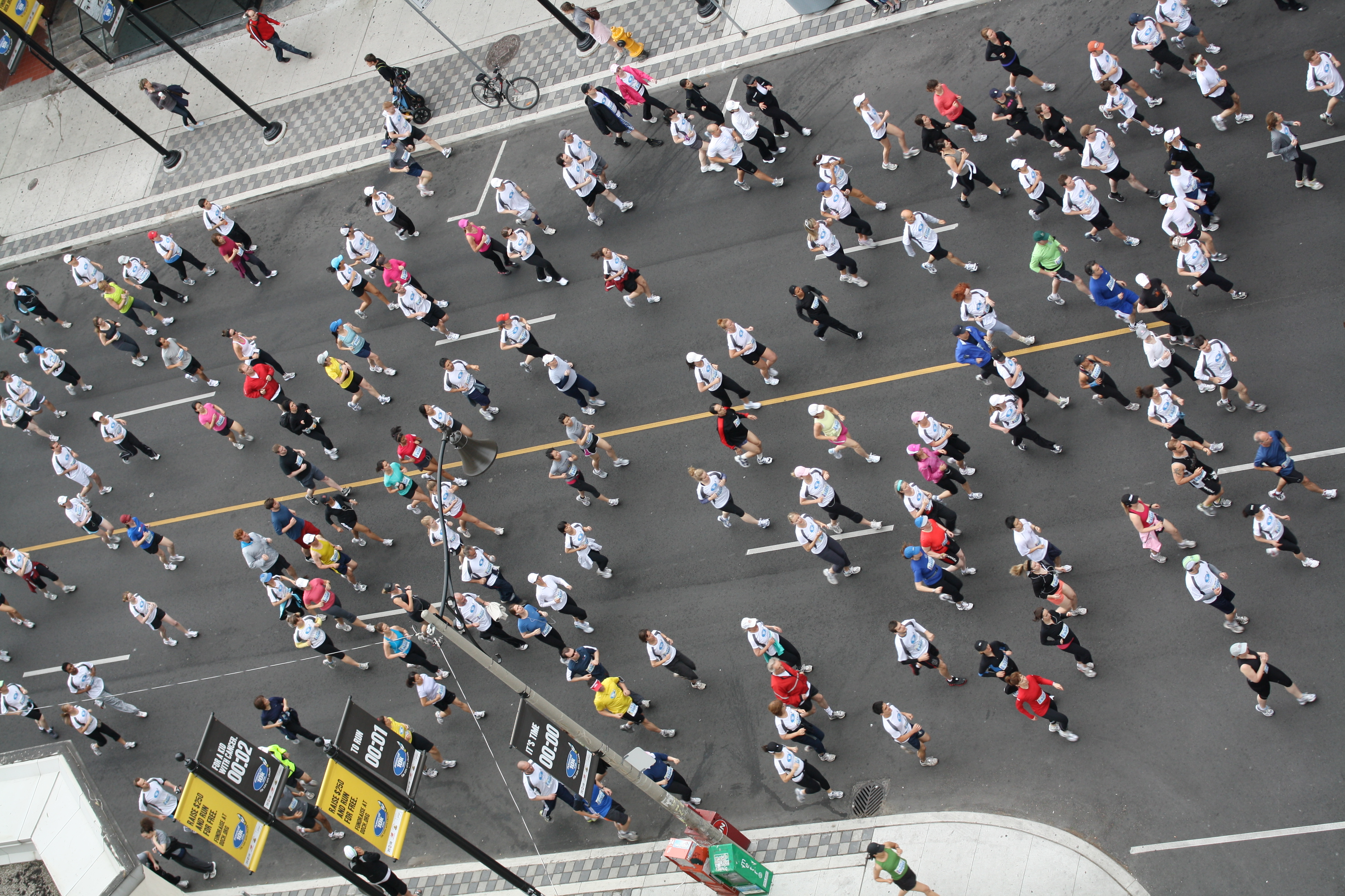 Sporting Life 10k Run, Toronto, Ontario, Canada.